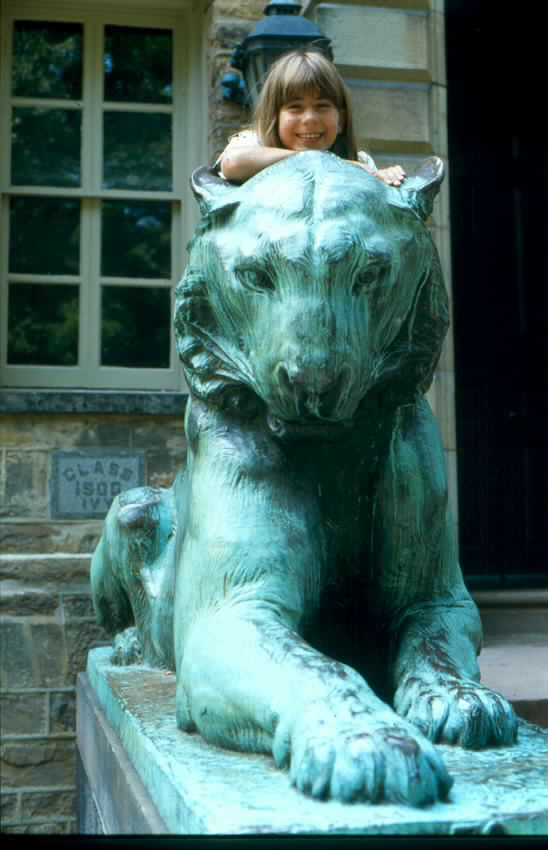 photo by Einar Einarsson Kvaran Alexander Phimister Proctor